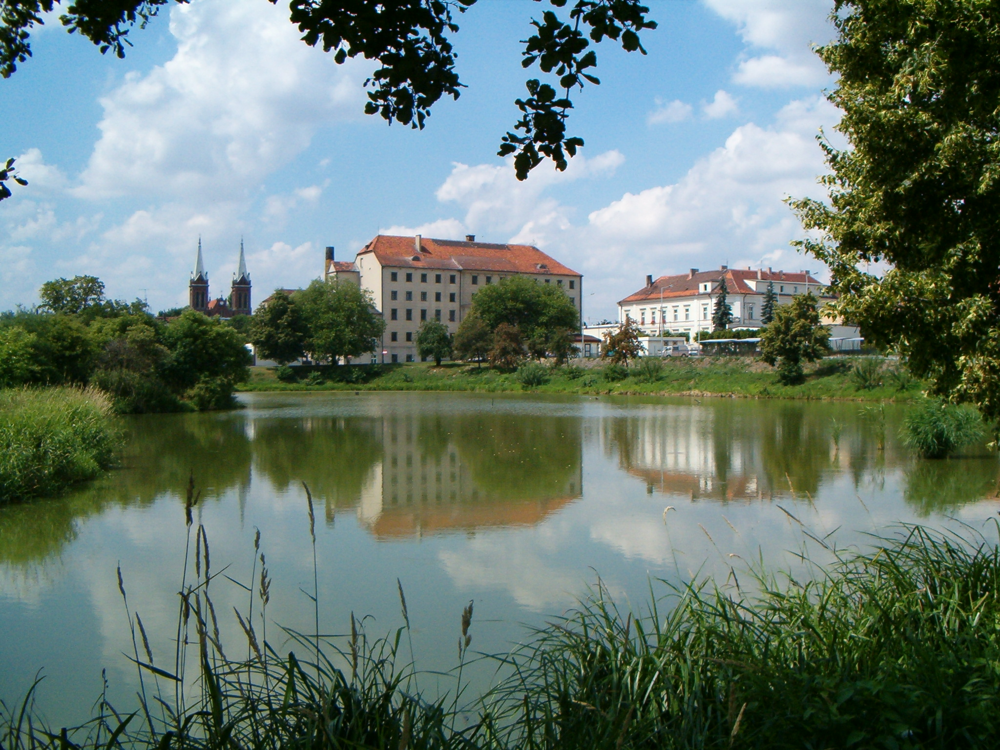 Opatówek, view from the pont